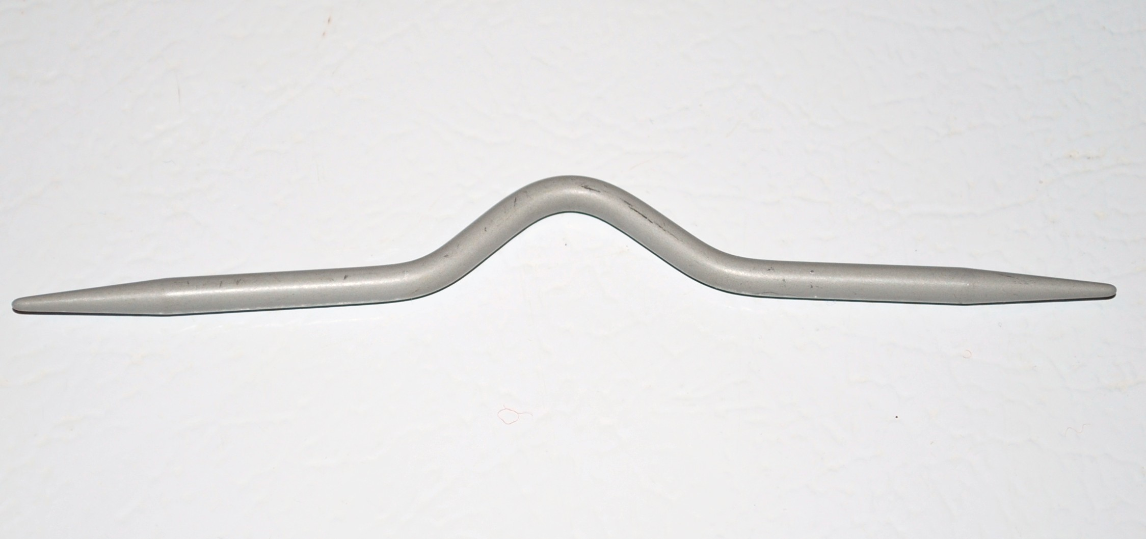 A cable needle, used in knitting.